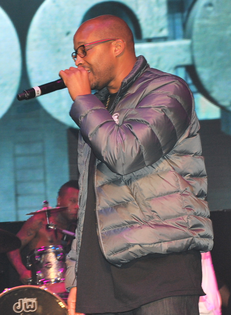 Levi's® x Snoop Dogg Pre-Grammy Party on February 5th at the Hollywood Palladium.